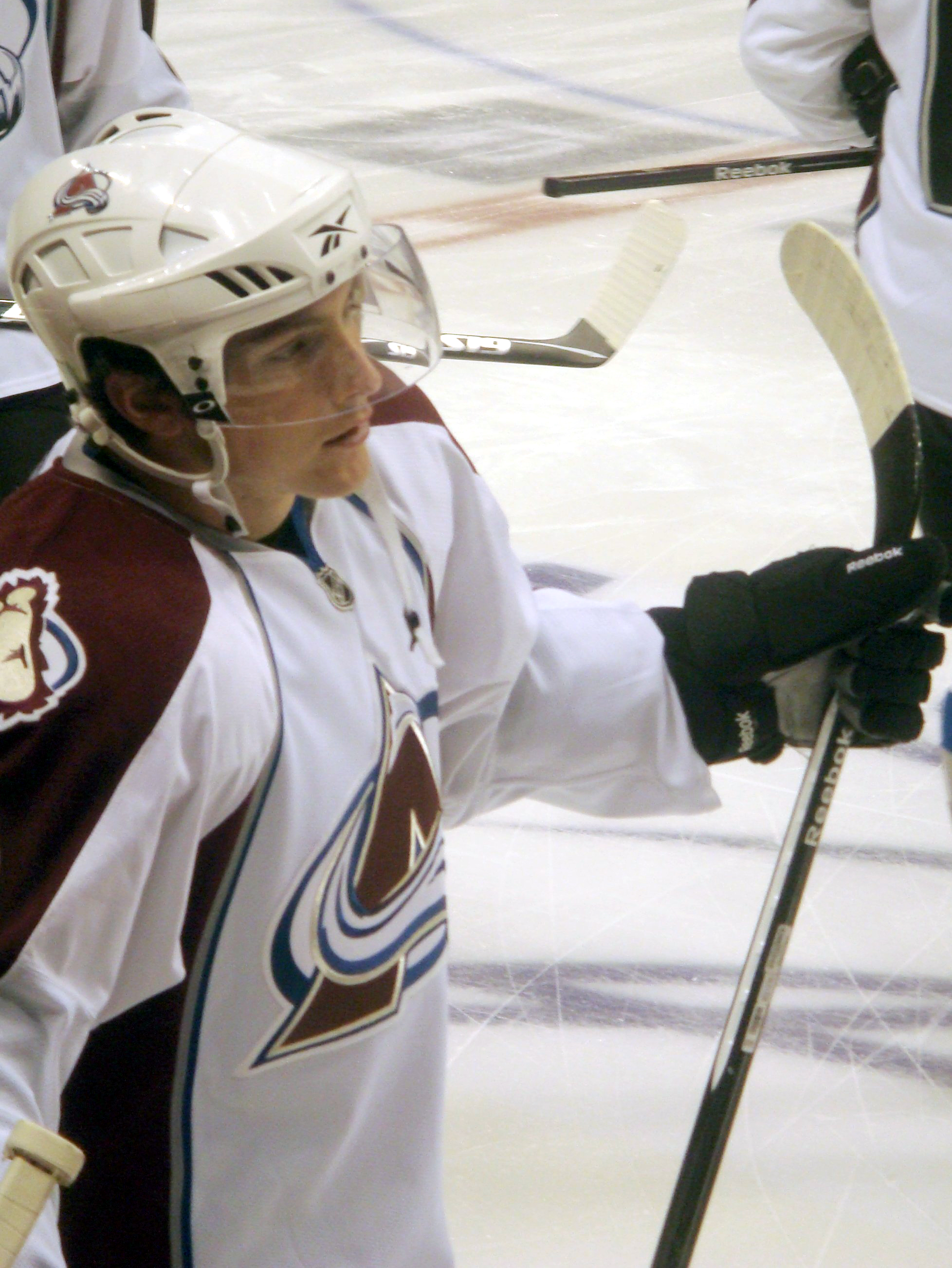 Colorado Avalanche forward Matt Duchene in a game against the Vancouver Canucks on November 1, 2009.